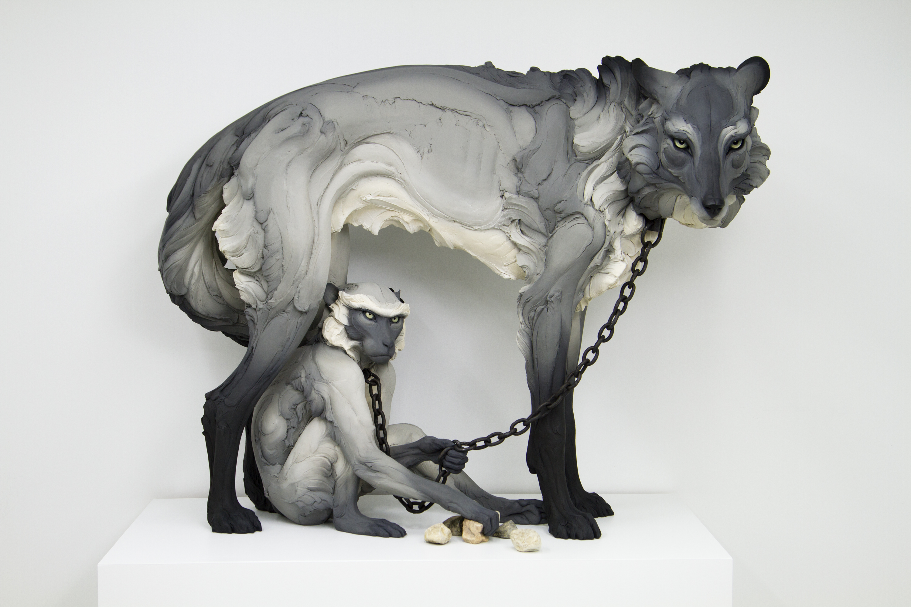 Title: Tribute from the exhibition "The Other" Date: 2017 Material: Stoneware, paint, hand-forged steel collars and chain Dimensions: Wolf: 58 in. length, 46 in. height, 31 in. width